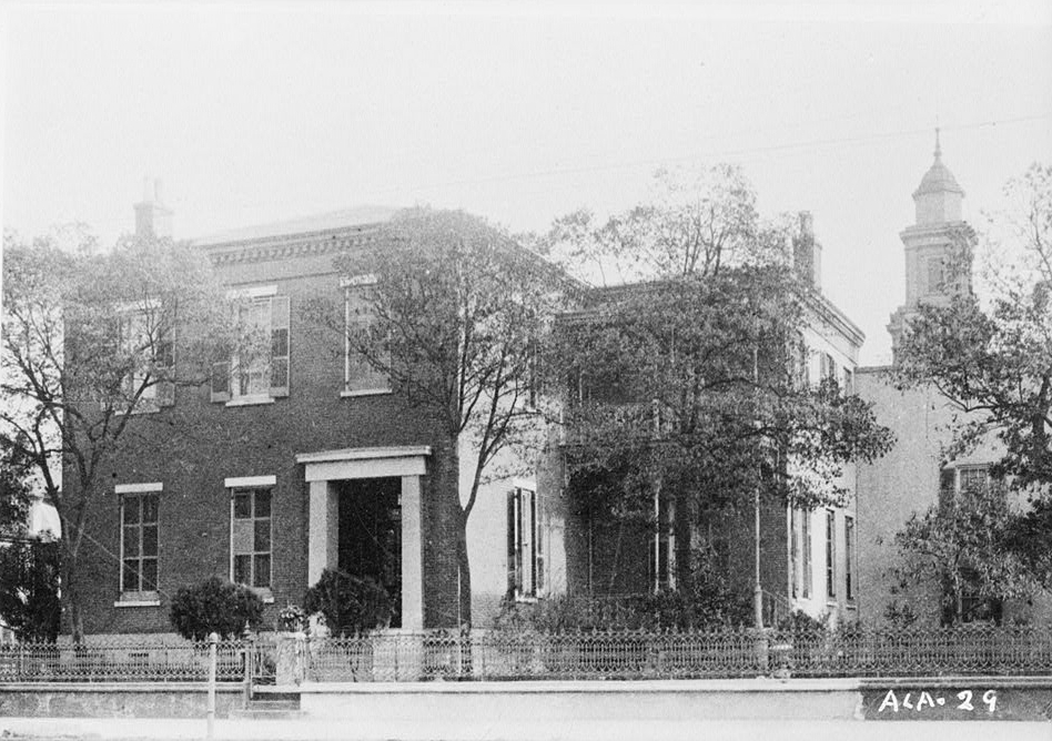 Madame LeVert House & Office, 151 & 153 Government Street, Mobile, Mobile County, AL. REPRODUCTION OF PHOTOGRAPH OF BUILDING BEFORE NEW FRONT WAS ADDED (CHRIST CHURCH TOWER IN BACKGROUND).